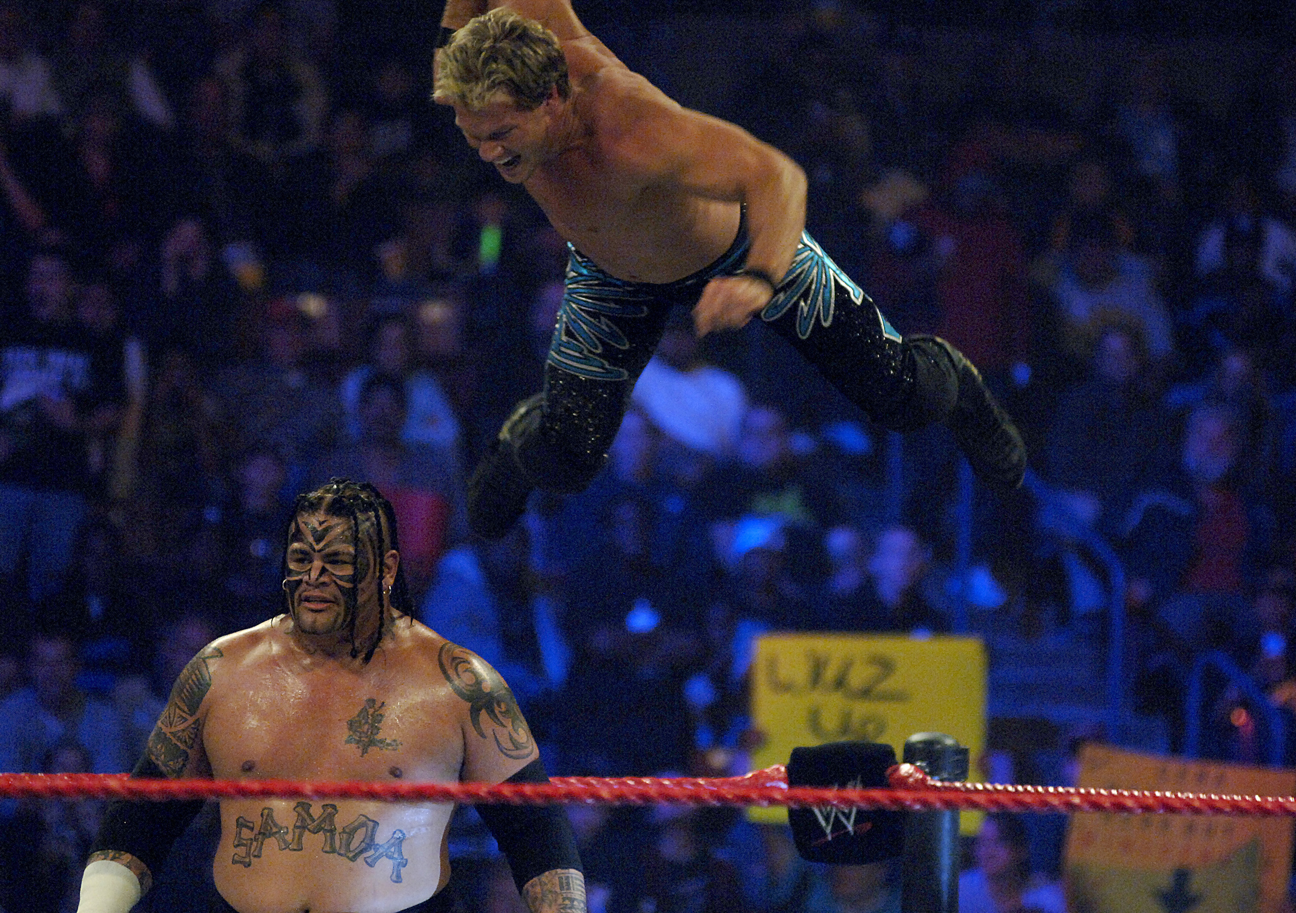 Chris Jericho, jumps from the top rope, and flies into WWE performer Umaga during their performance at the North Charleston Coliseum Monday.